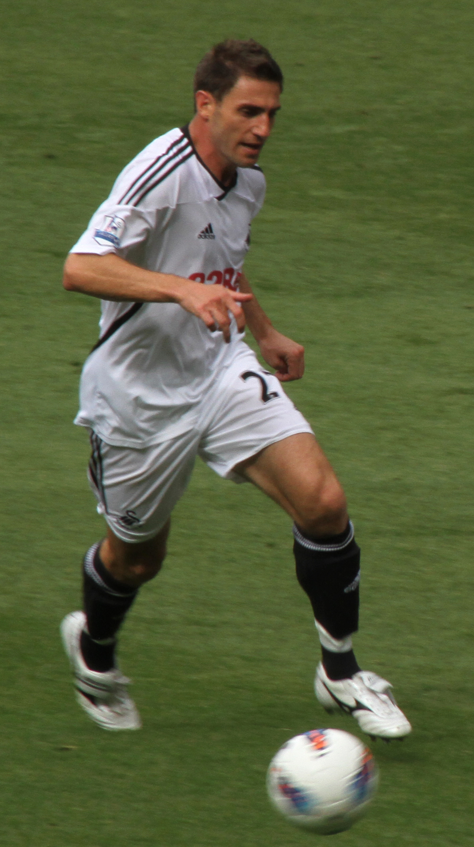 Angel Rangel of Swansea dribbles the ball